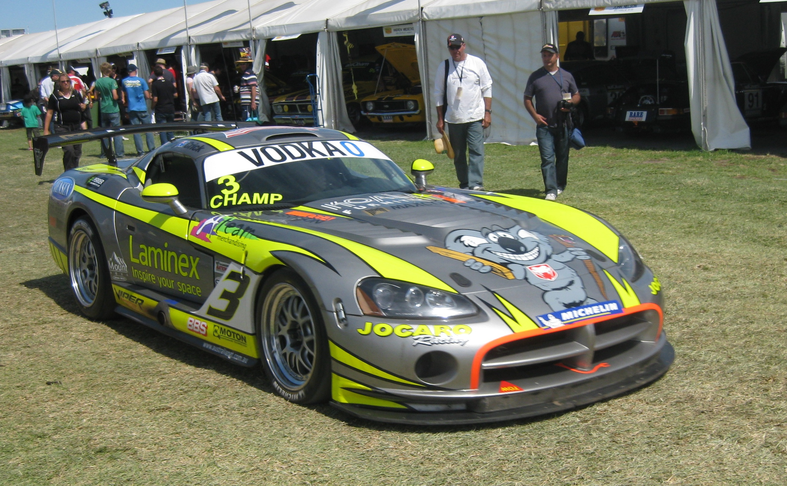 The Dodge Viper GT3 of Ross Lilley at the Adelaide Parklands Circuit for the opening round of the 2010 Australian GT Championship